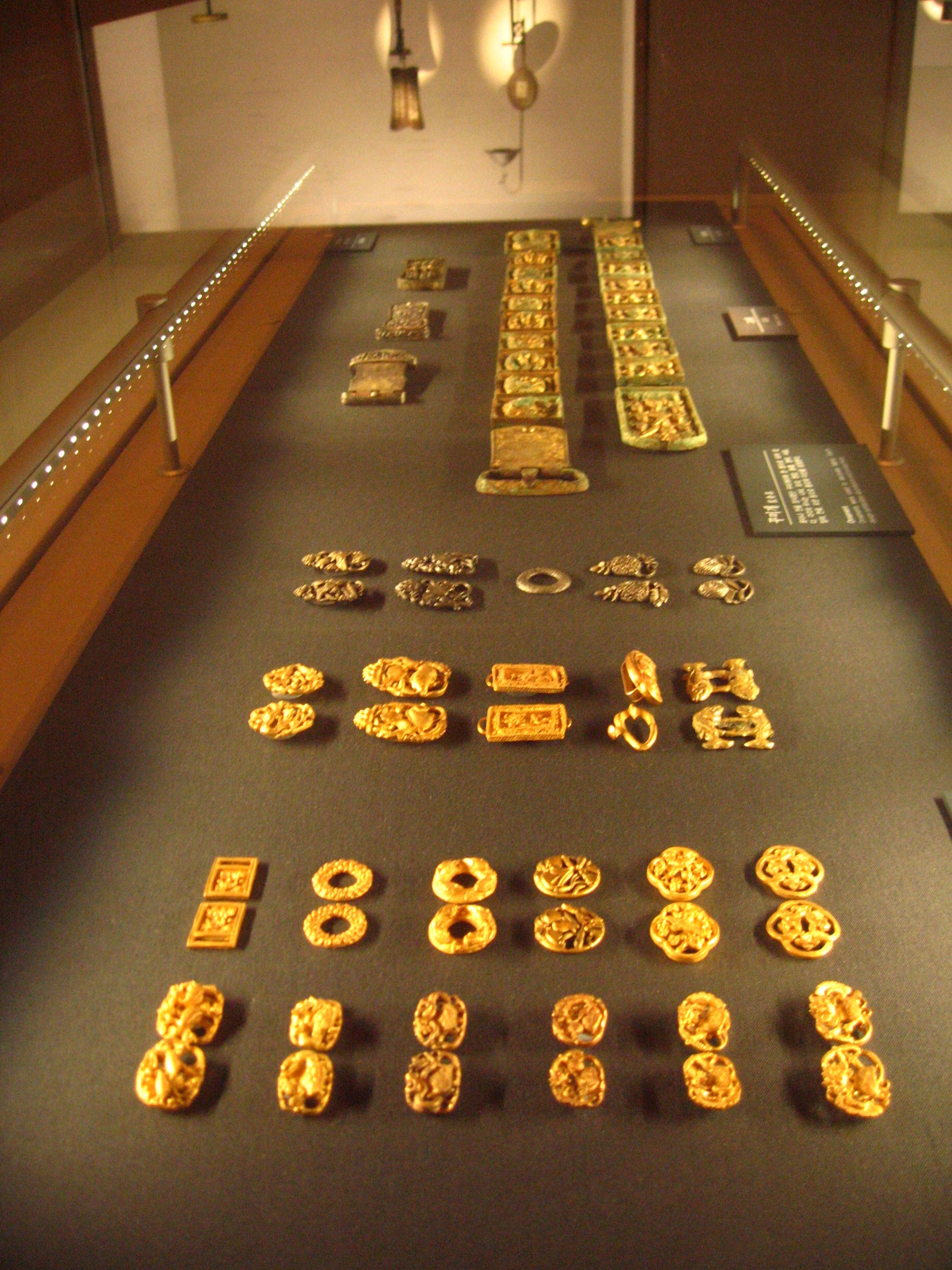 The National Museum of Korea in Seoul, South Korea